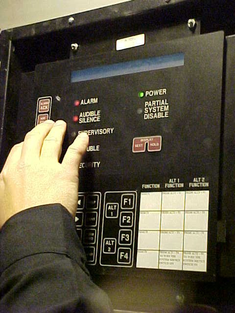 A police officer resets the fire alarm control panel, a Siemens MXL, in Potomac Hall at James Madison University